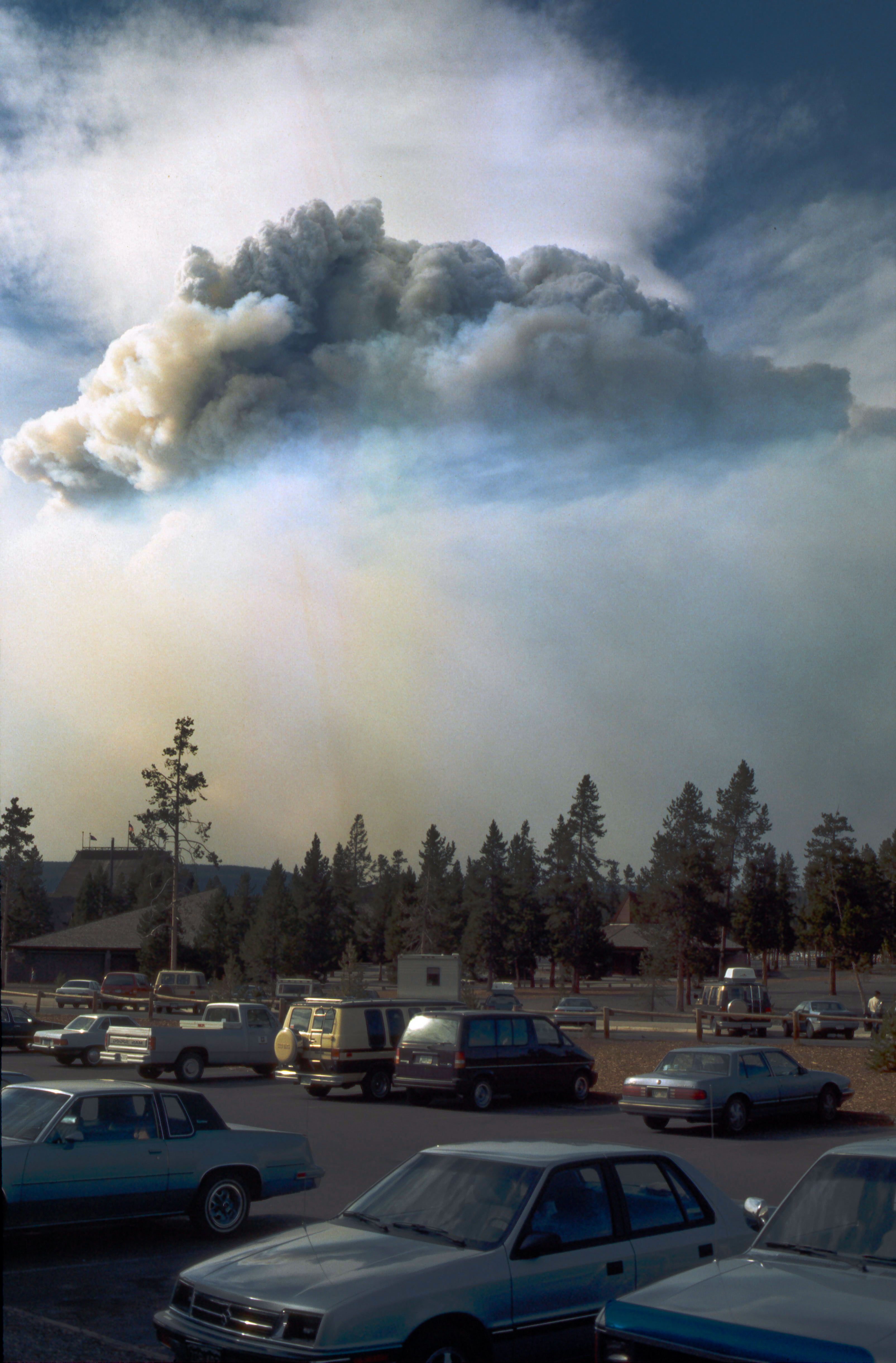 United States of America United States of America, pictures of the wildfires at Yellowstone Park in 1988. The day of the picture is not accurate. Any help with the date - also with geo-tagging - is welcome.